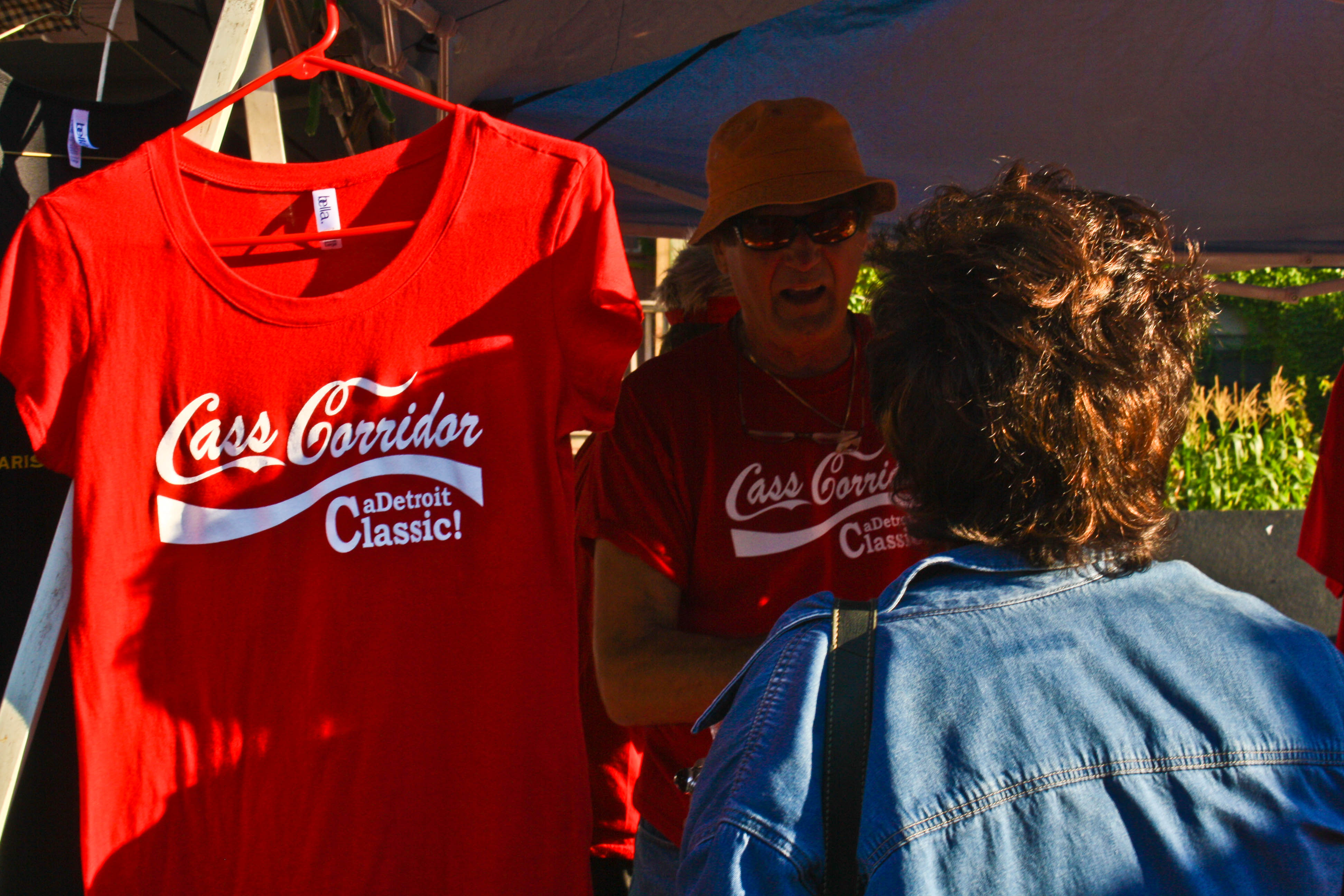 A T-shirt Vendor at Dally in the Alley